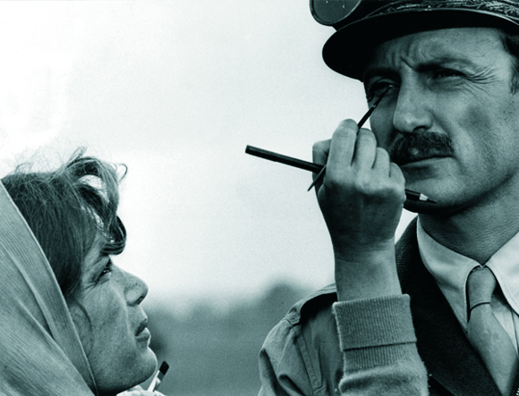 Maquillage sur "Paris Brule-t-il"